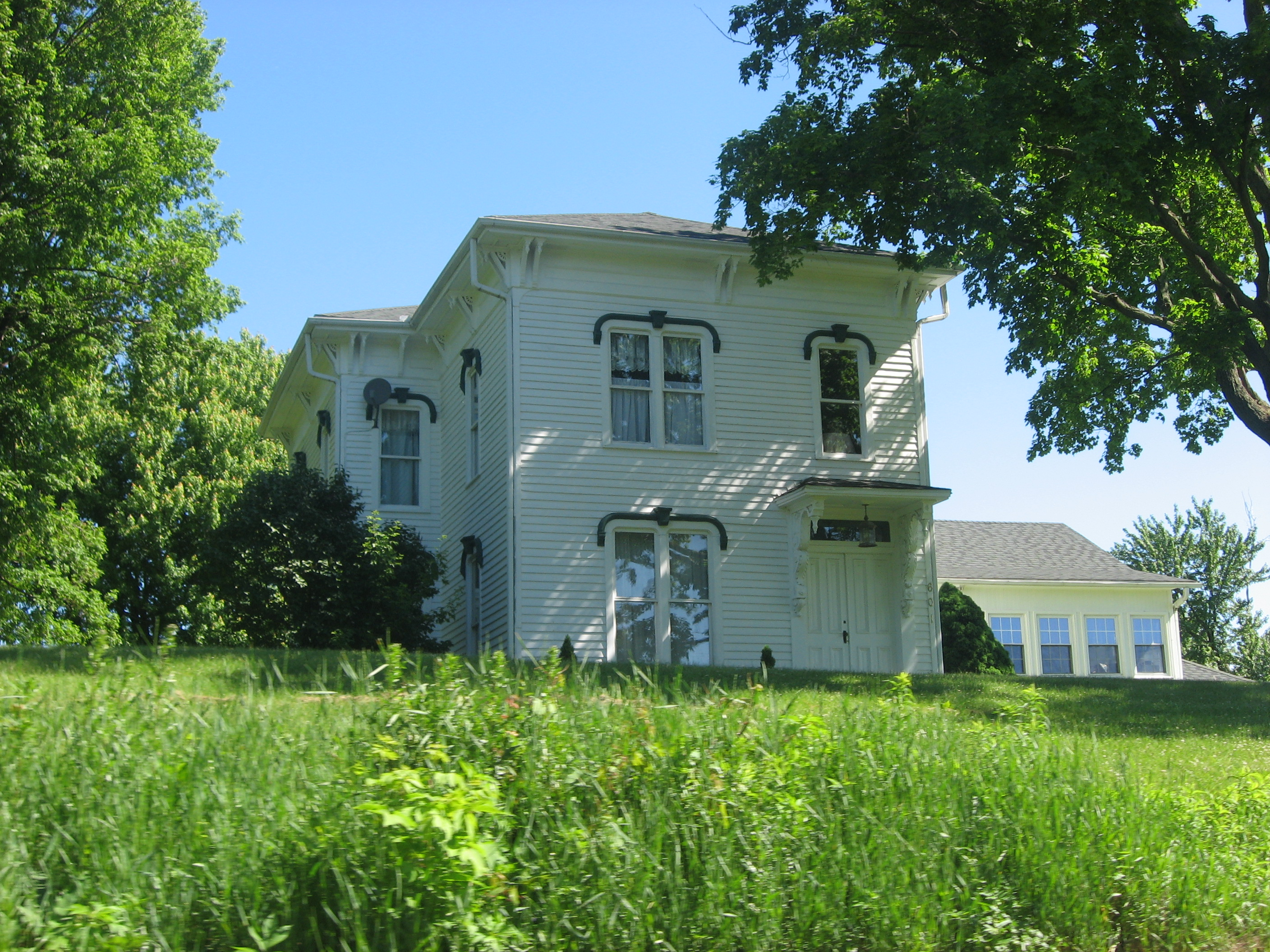 Front and western side of the Weller House, located at 601 E1200N east of Chesterton in Pine Township, Porter County, Indiana, United States. Built in 1870, it is listed on the National Register of Historic Places.